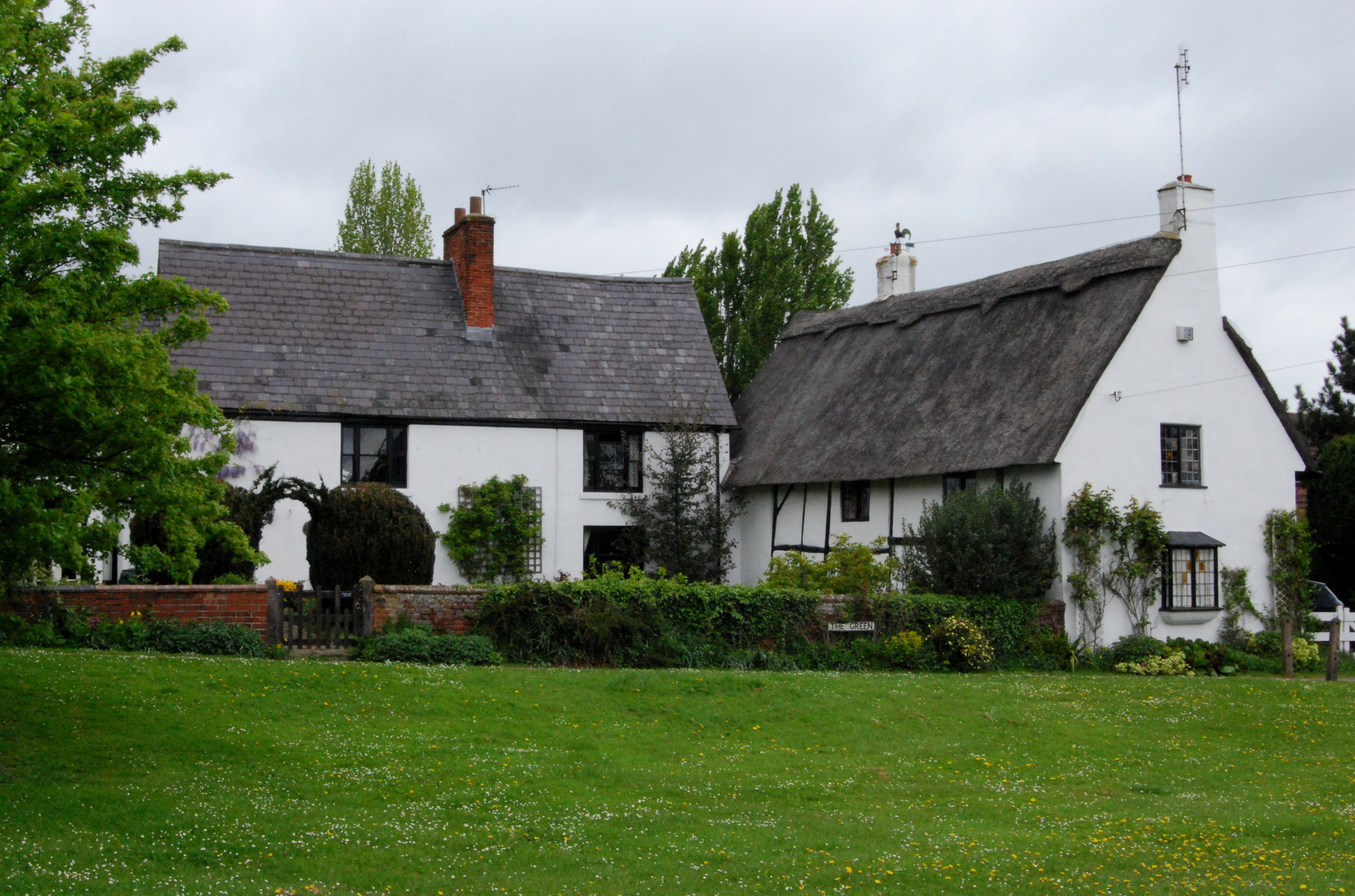 Cottages with part thatched roof Old Dalby Leicestershire